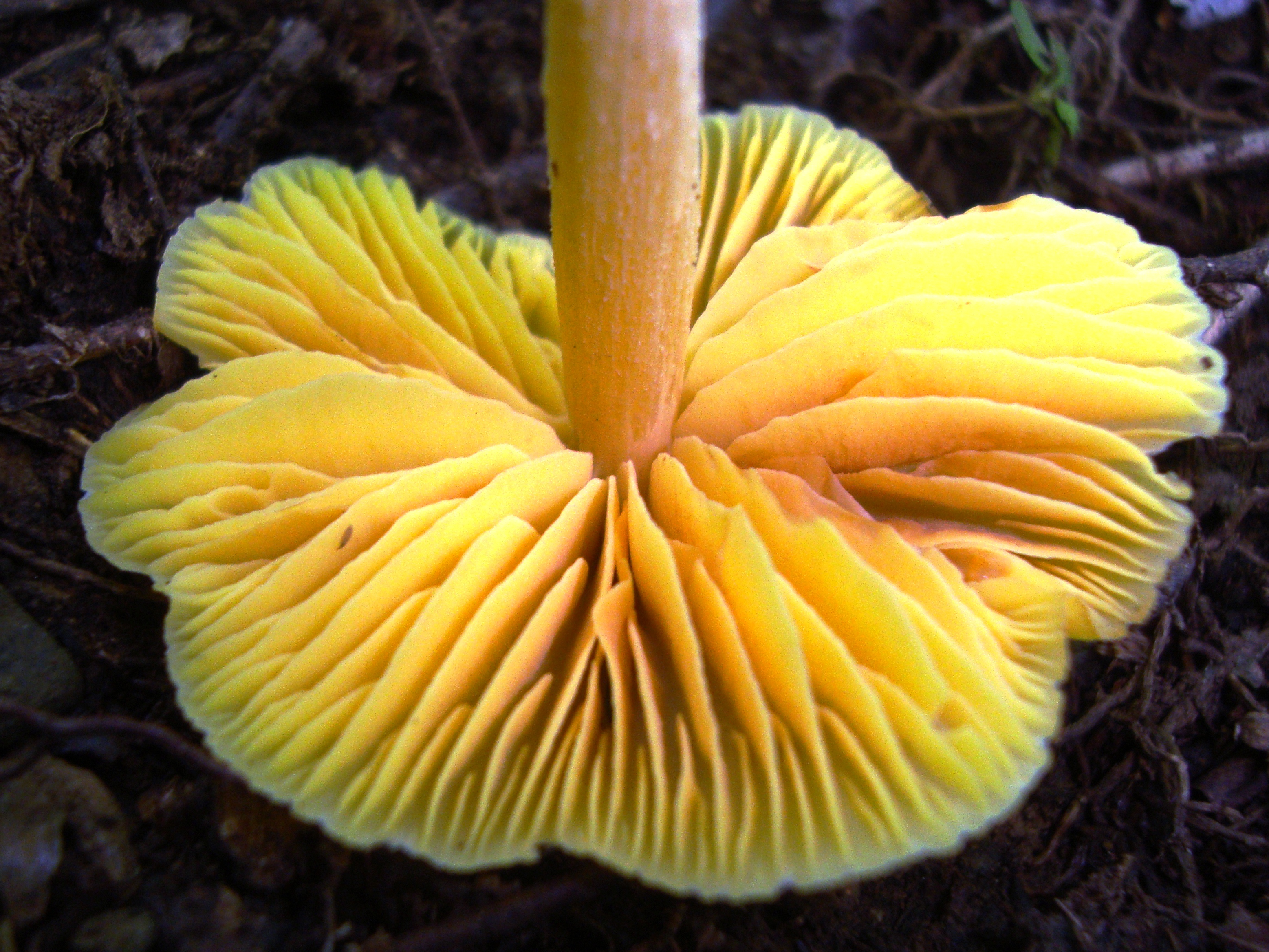 View of the gills of the agaric mushroom Entoloma murrayi. Specimen found in Shenandoah National Park, Warren Co., Virginia, USA.